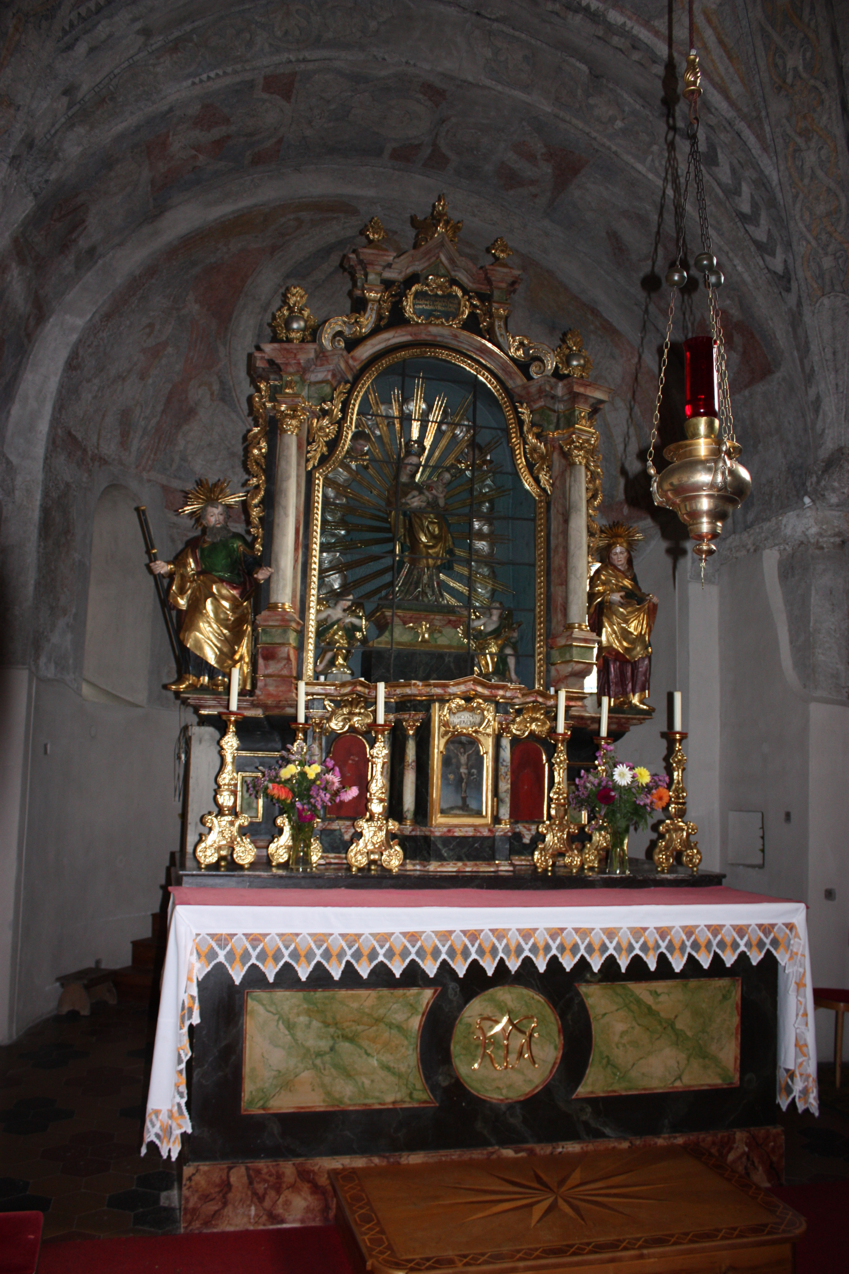 Parish church: Main altar Locality: Berg im Drautal Community:Berg im Drautal